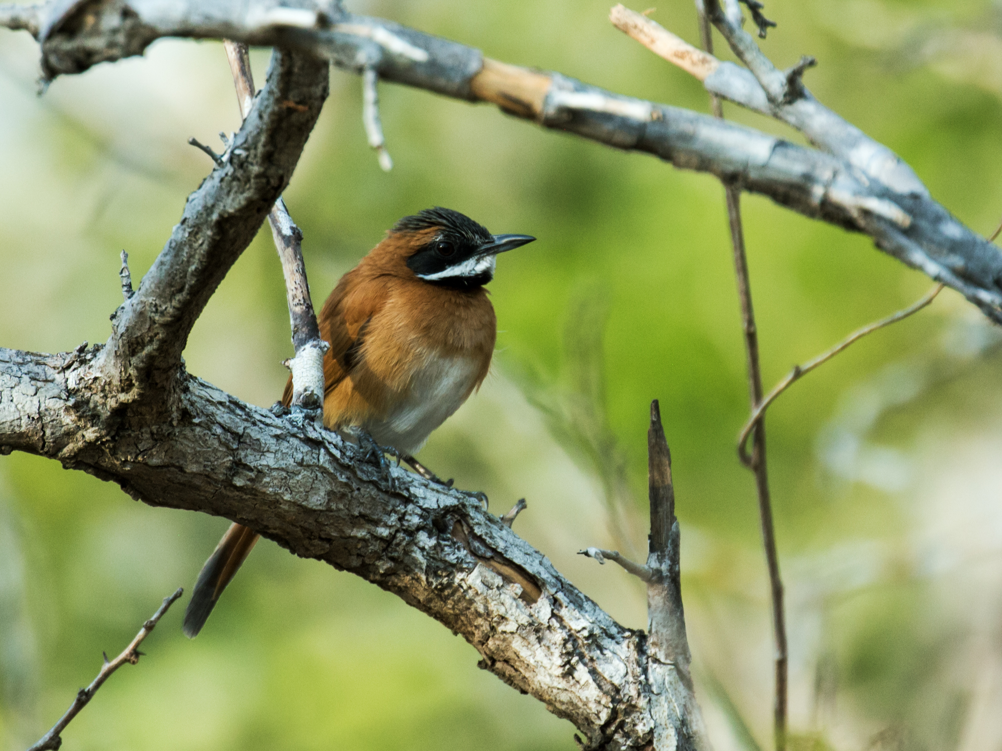 White-whiskered Spinetail from Los Flamencos Fauna and Flora Sanctuary, La Guajira, Colombia